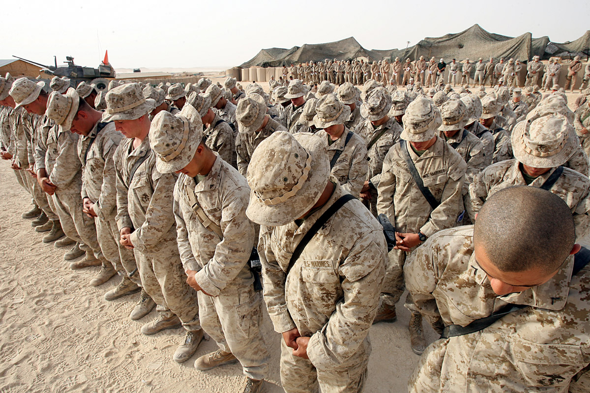 Marines of Third Light Armored Reconnaissance Battalion bow their heads in prayer during a memorial service for their fallen comrads. OIF 5-7, 2006.